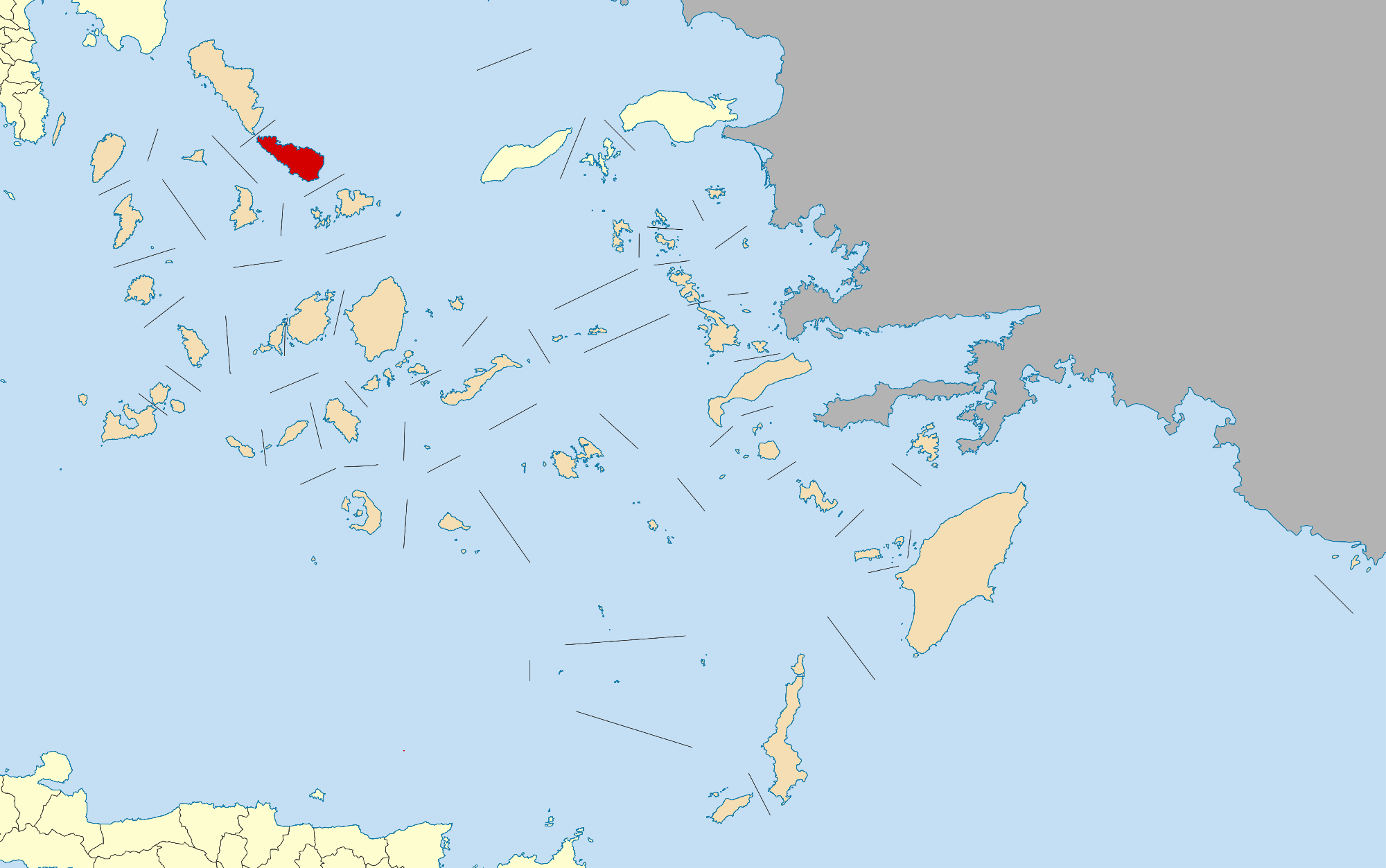 Locator map for Tinos municipality in Greek region South Aegean (2011)